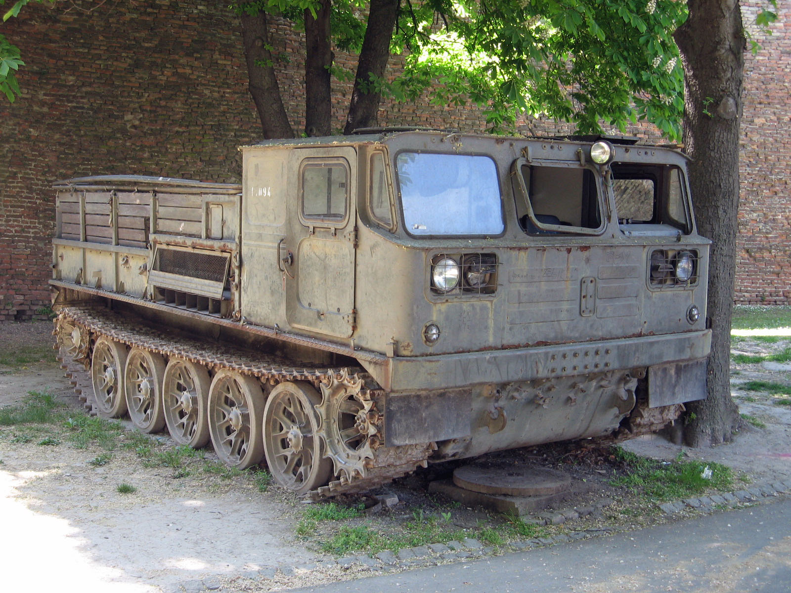 ATS-59G Russian medium artillery tractor